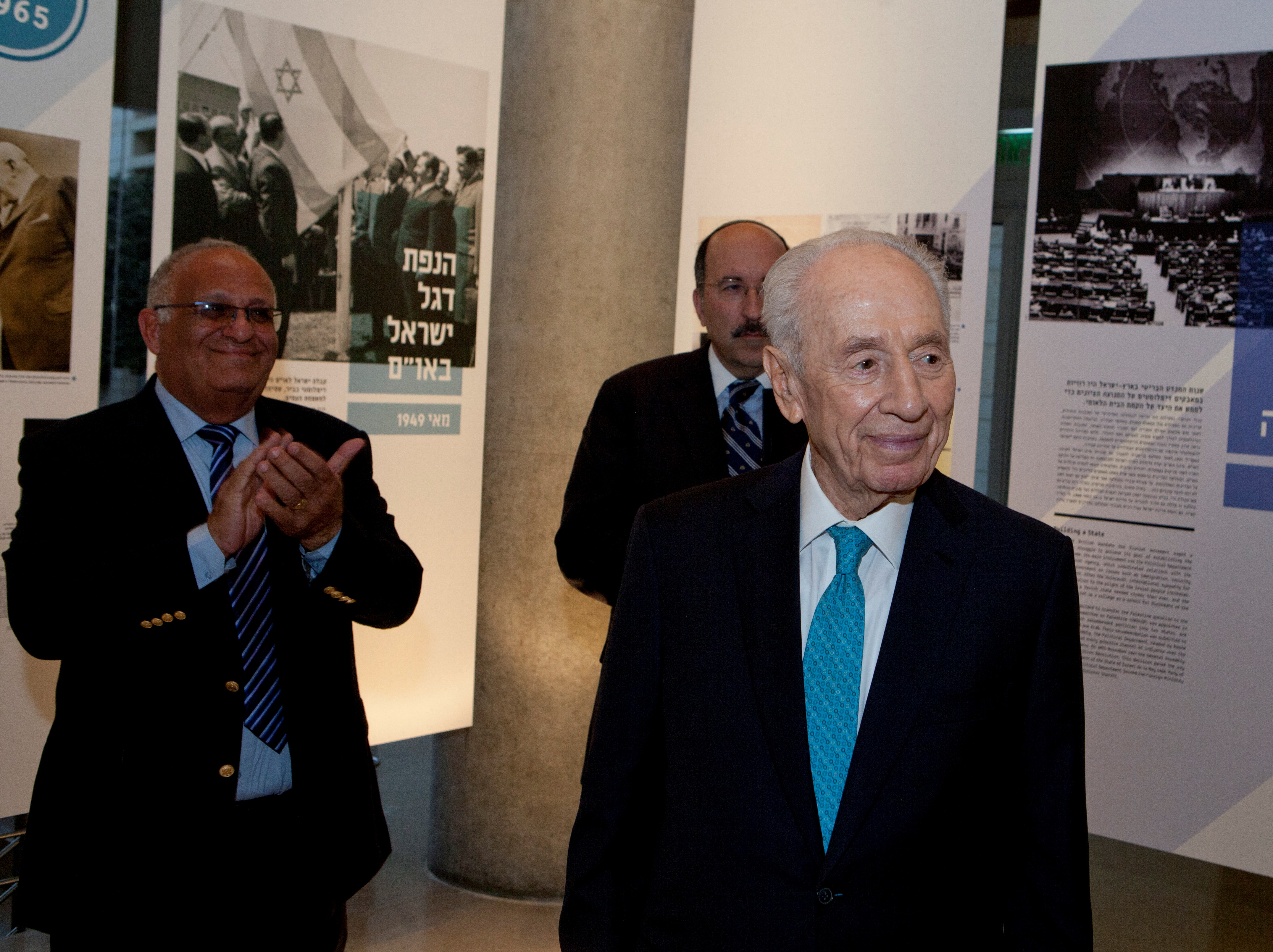 Former Israeli President Shimon Peres recieves the Israeli Diplomacy Award of 2015. Alongside him are the Director-General of the Israeli Ministry of Foreign Affairs, Dore Gold, and the President of the Israeli Association for Diplomacy, Ambassador Pinhas Avivi. Jerusalem, November 29th, 2015.